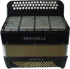 Button accordion, 3 rows 80 bass, 2 reeds per tone own picture